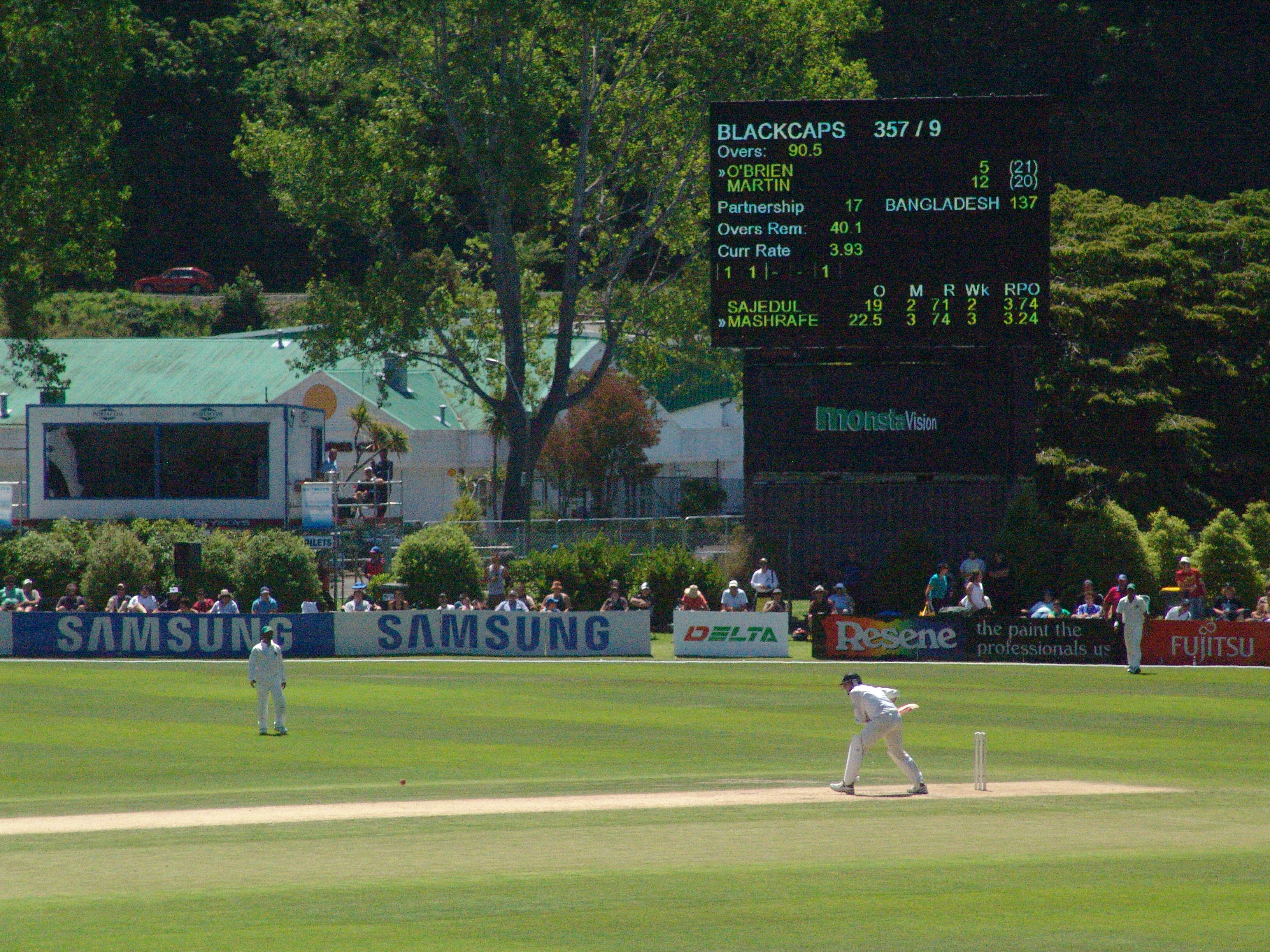 The first test match in the 2008 series between New Zealand and Bangladesh, held at the University Oval, Dunedin, New Zealand from January 4 to January 8 2008. Iain O'Brien is facing a ball from Mashrafe Mortaza. He was in fact dismissed by this delivery, edging it and being caught behind the wicket.